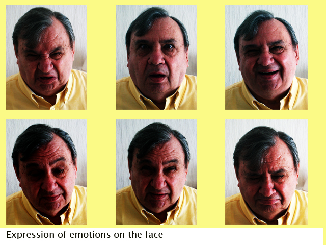 Facial emotions.